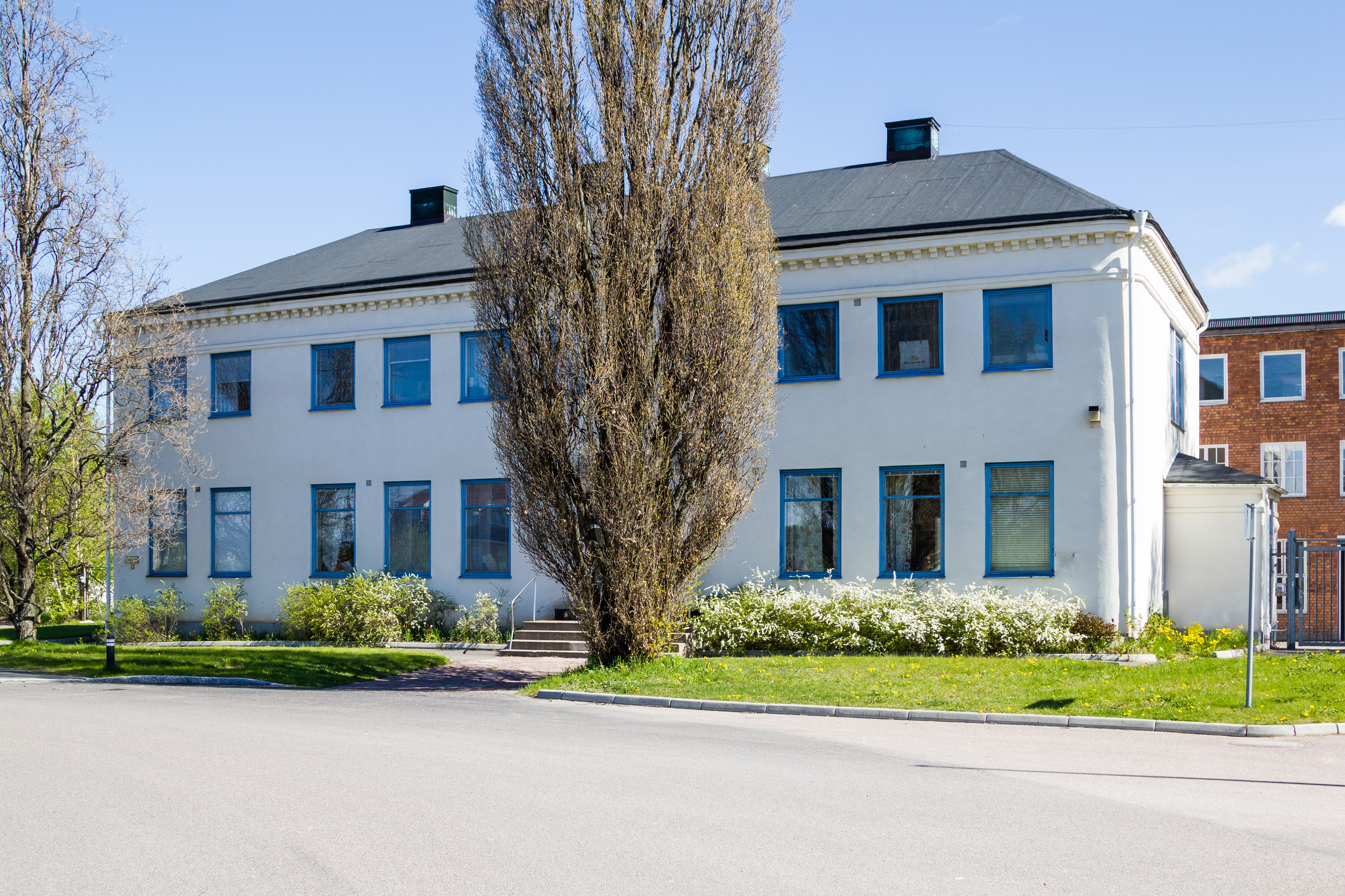 Former Hedemora Verkstäder, office building. Hedemora, Dalarna County, Sweden. Now Hedemora Industriaukustik (HIAK).